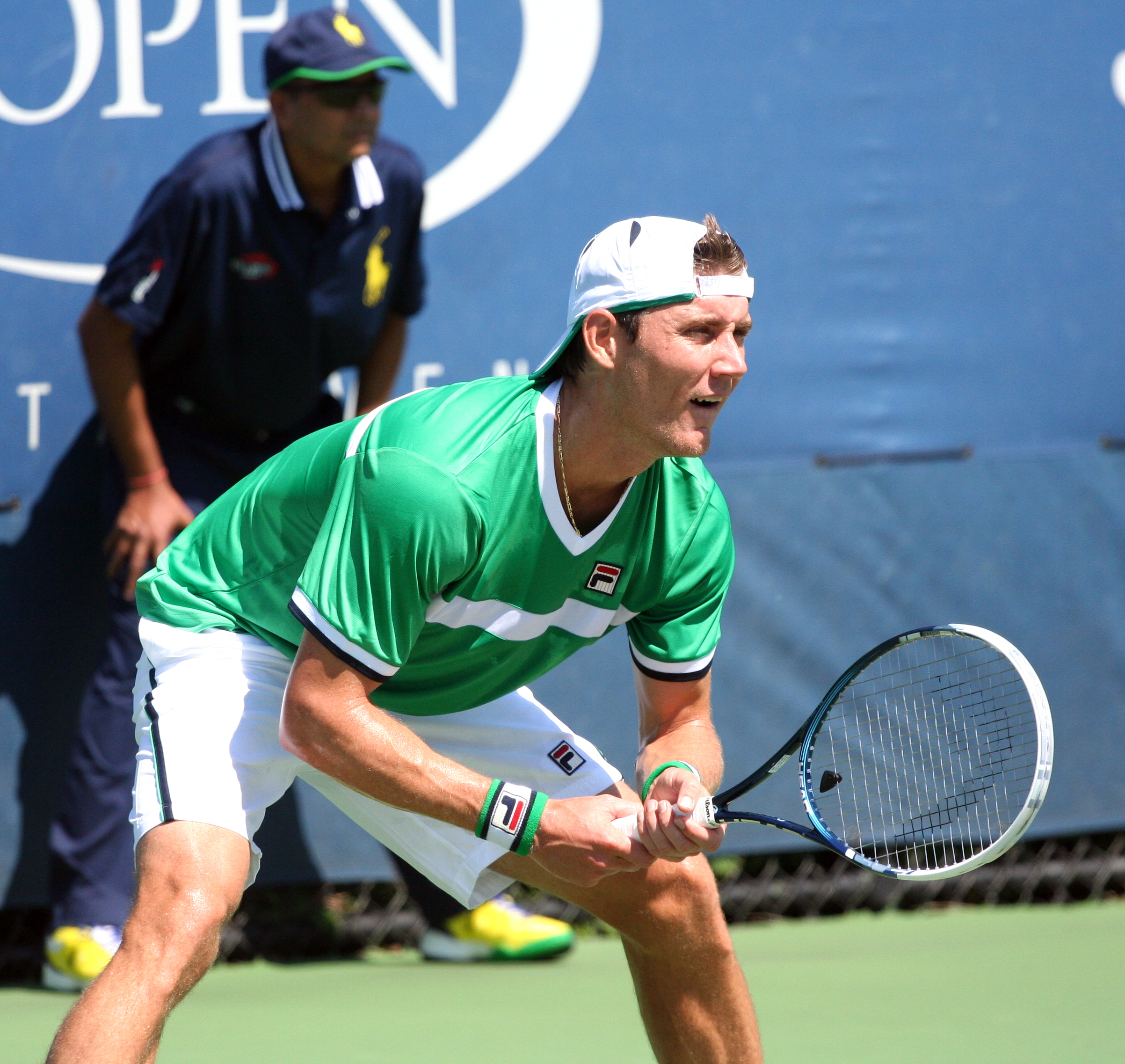 U.S. Open Monday, Aug. 25, 2014